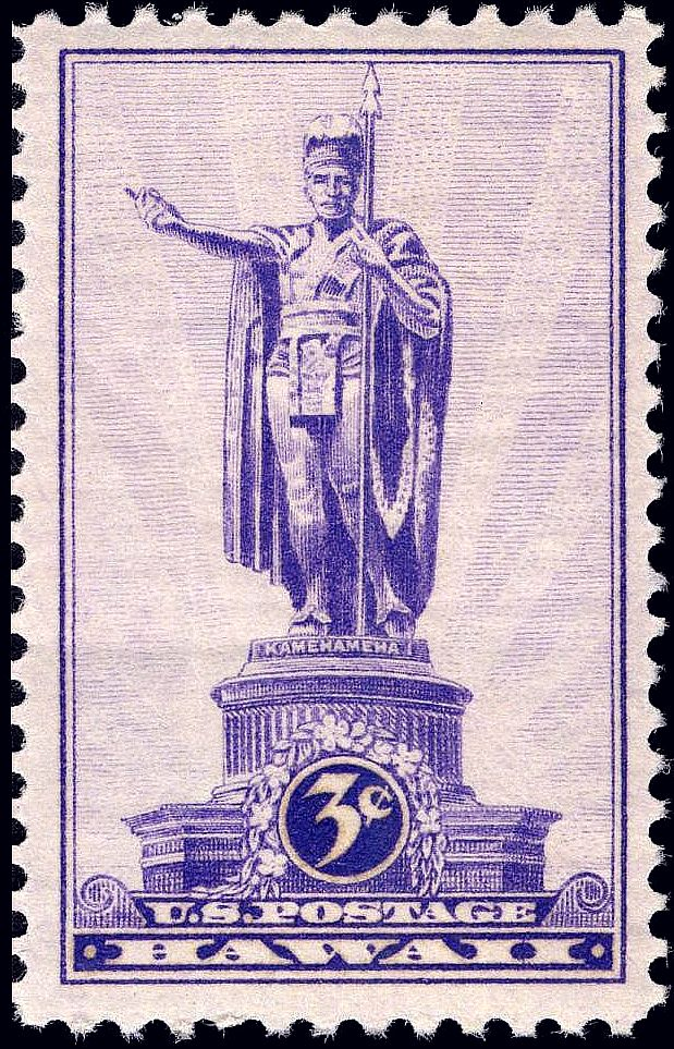 Image of the Hawaii Kamehameha stamp, 3-cents, issue of 1937